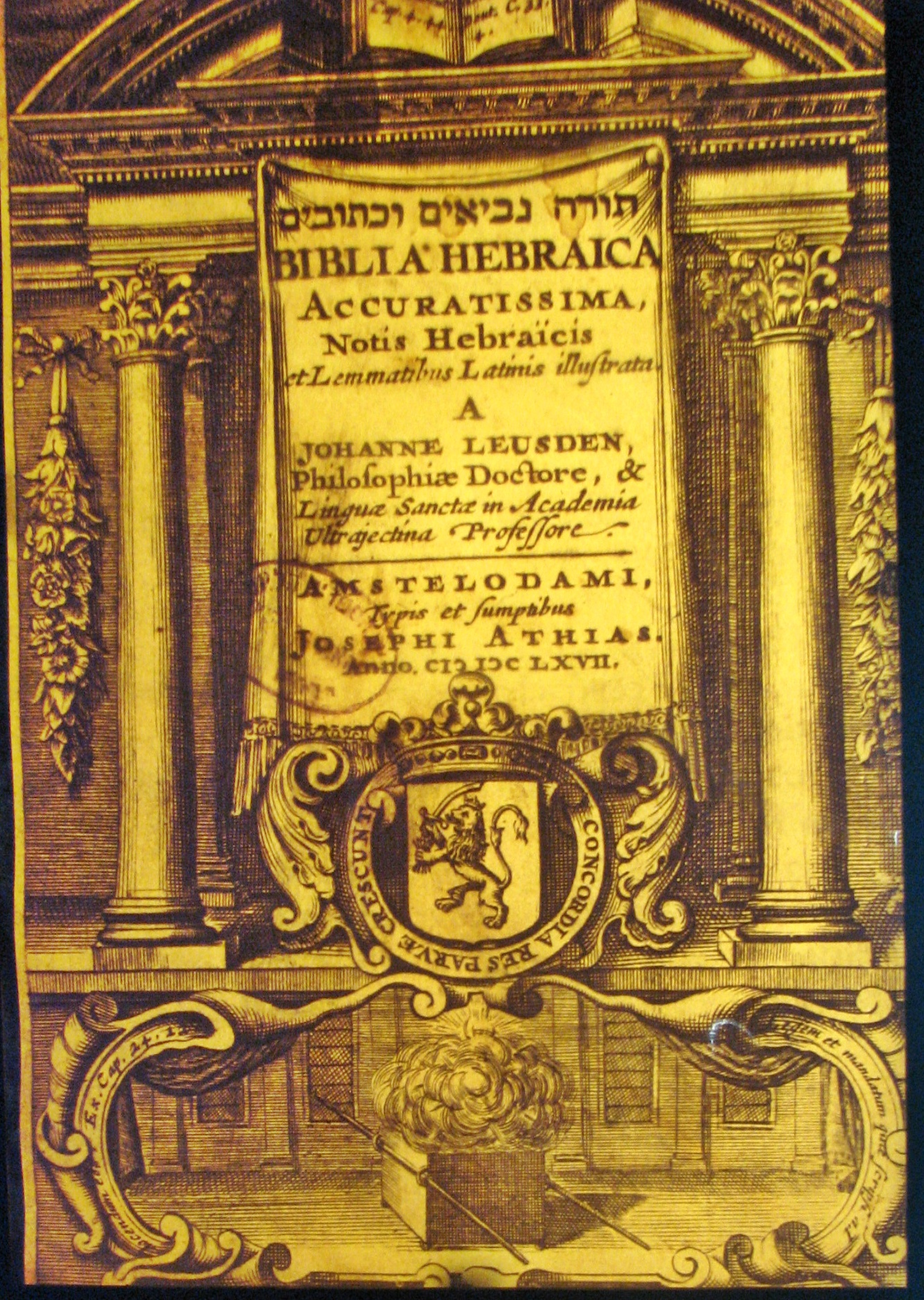 Front page of the Hebrew Bible printed by Joseph Athias in 1667 at Amsterdam. This is a photo of an exhibit at the Diaspora Museum, Tel Aviv - Beit Hatefutsot. (Photo was taken by User:Sodabottle)